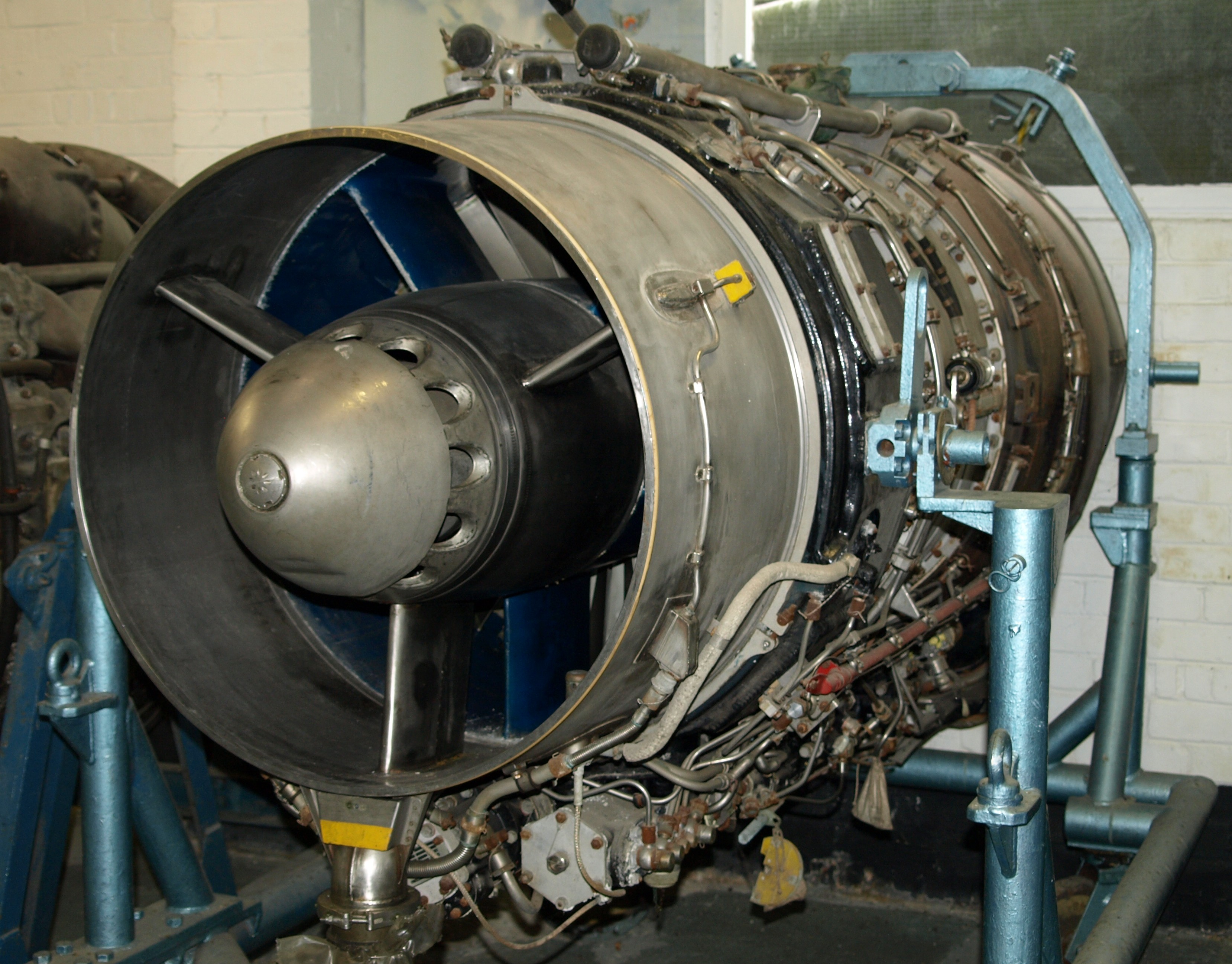 de Havilland Gyron Junior turbojet engine at the de Havilland Aircraft Heritage Centre